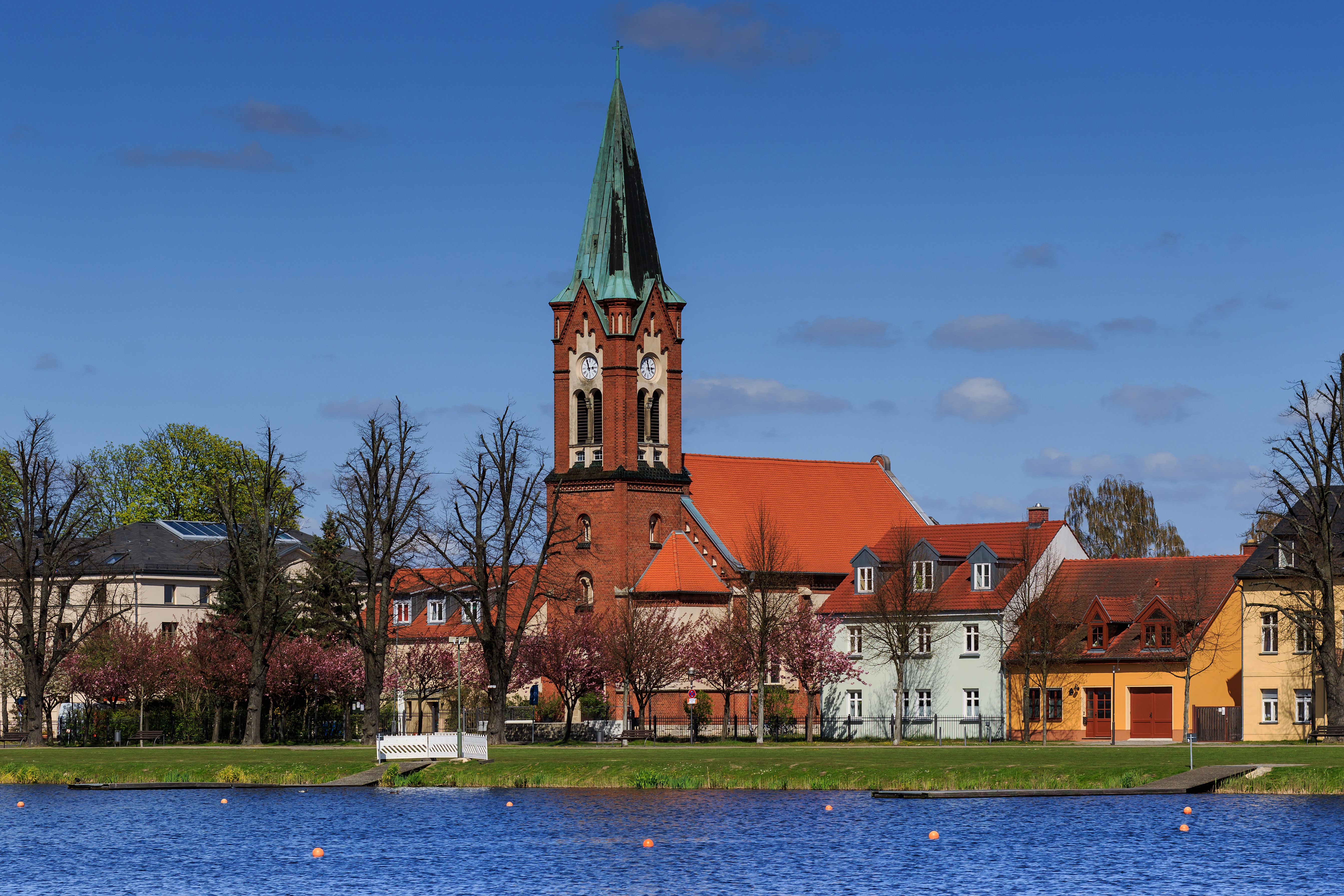 Saint Mary „Star of the Sea“ Church in Werder (Havel), Brandenburg, Germany